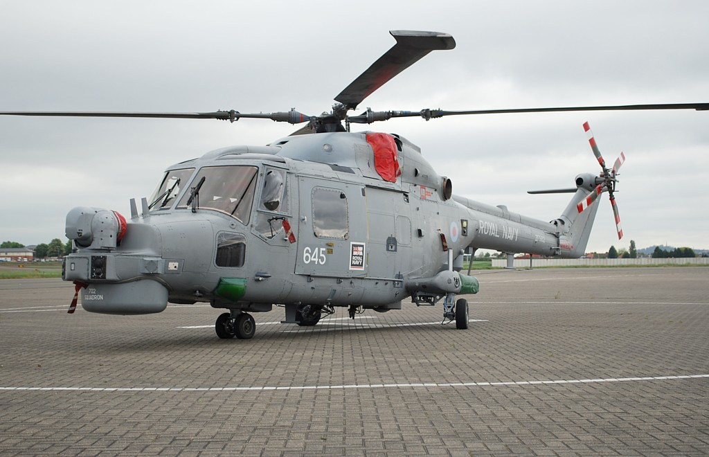 Lynx HMA.8SRU ZF562, Part of the Navy flypast over London in 2009